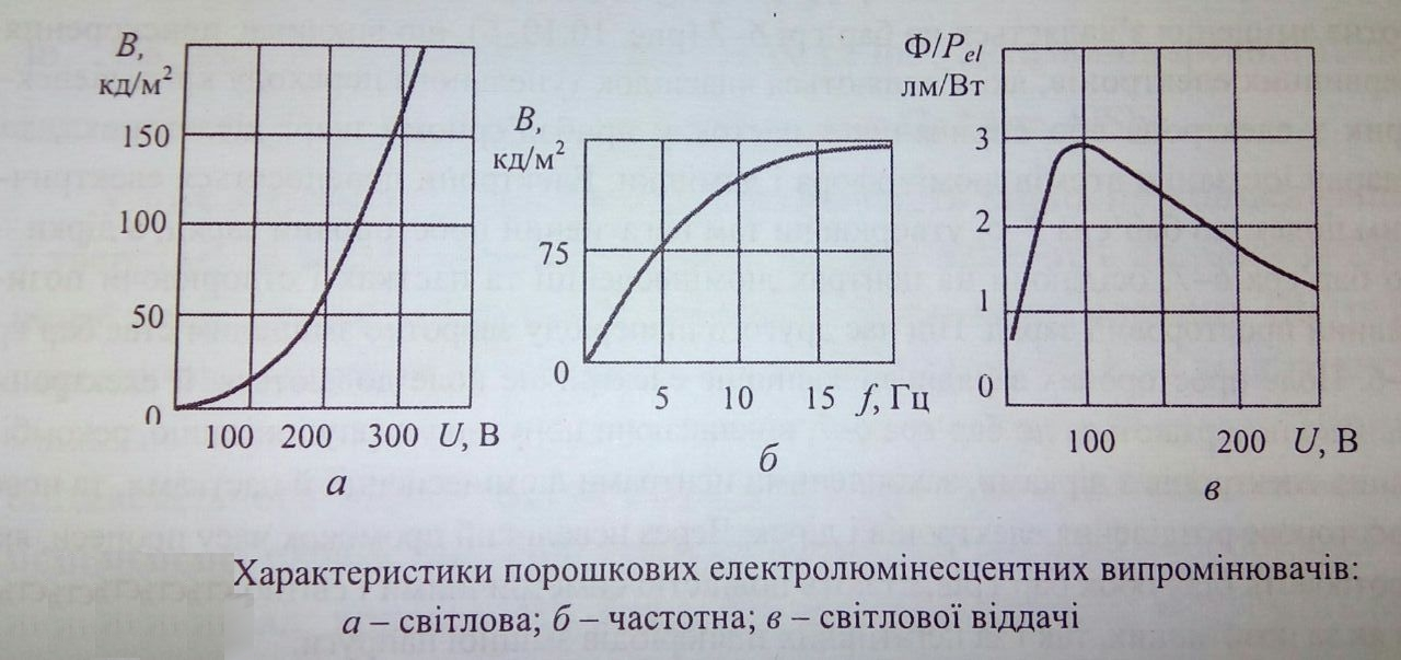 Characteristics of powder electroluminescent emitters